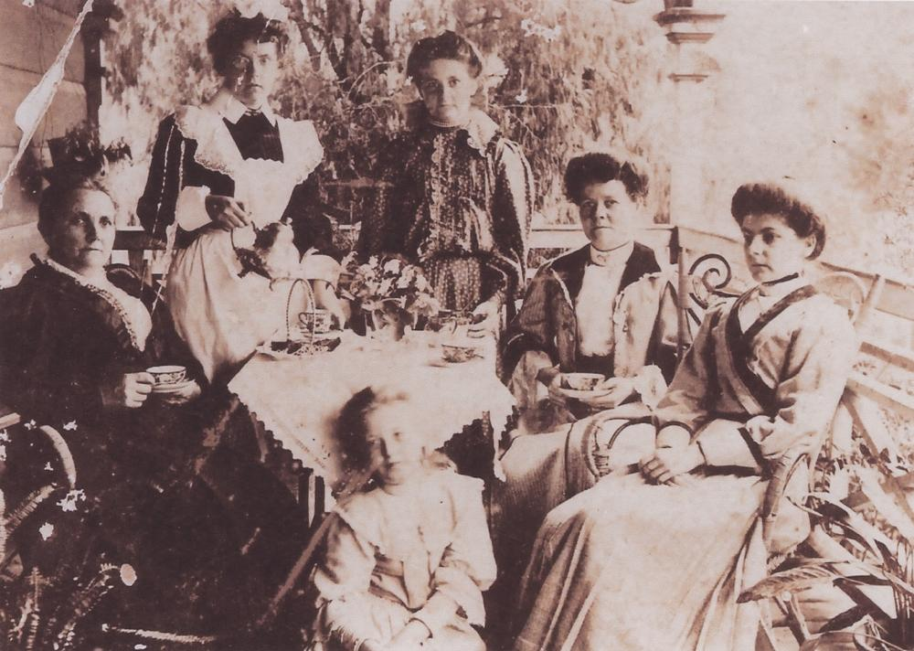 Taking tea on the verandah, ca. 1910. A group of Smith family members are gathered around a small table on the verandah taking tea. Pictured from left: Elizabeth Smith (wife of Rev. William Smith), Bertha Postle Smith (dressed as a maid serving tea) and Olivia May Smith, daughters of William and Elizabeth Smith, Isobel Auld and Agnes Grace Smith, daughter of William and Elizabeth Smith. The small child in front is unidentified. Possibly taken at the Methodist Parsonage, Allora.